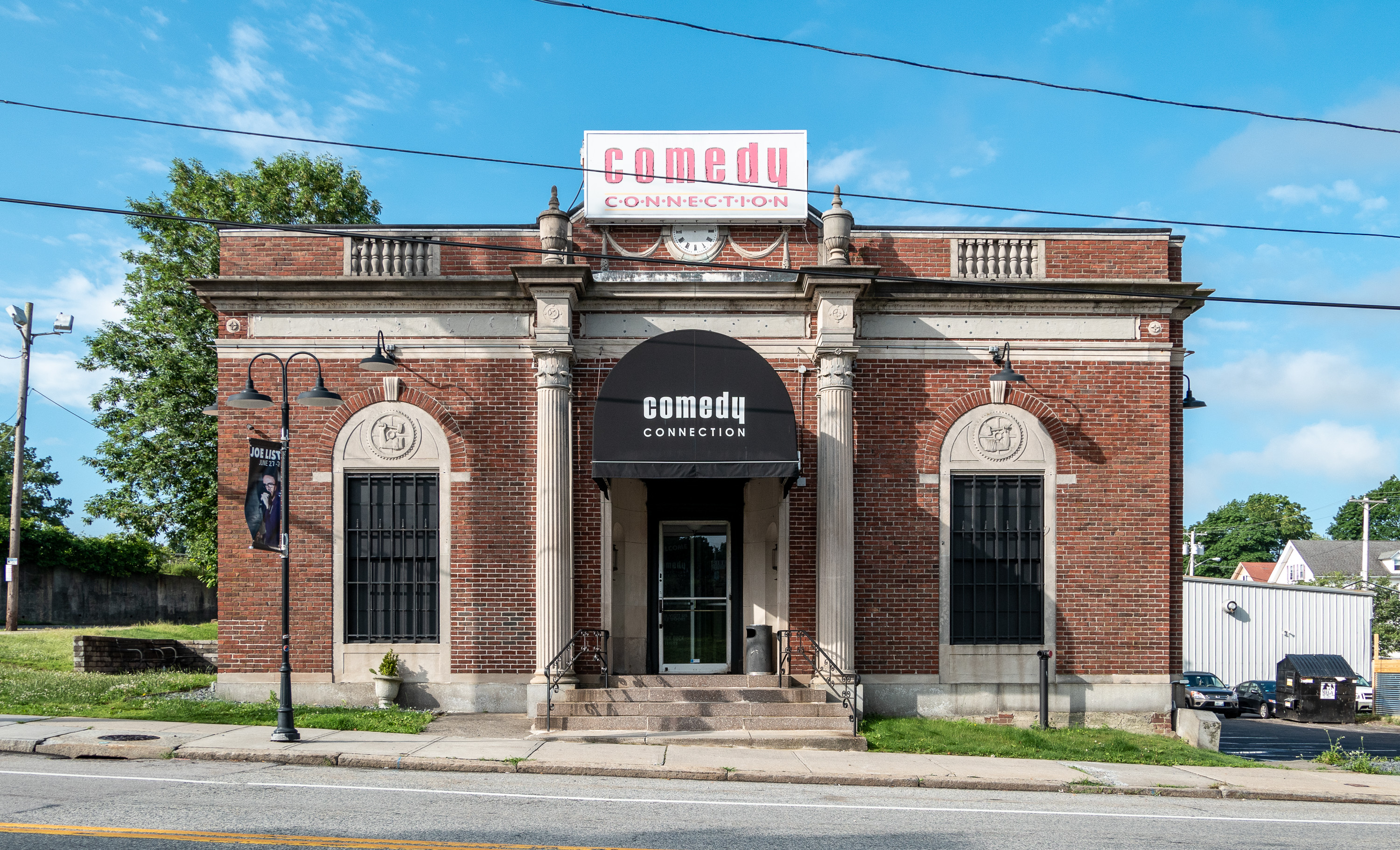 Former Industrial National Bank in Watchemoket Square. East Providence, Rhode Island. It has been the "Comedy Connection" since at least 2001. Built 1923.